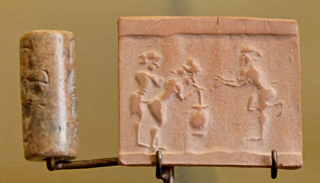 Cylinder seal with an erotic scene. Yellow marble, Achaemenid period (6th-4th centuries BC). From Susa.